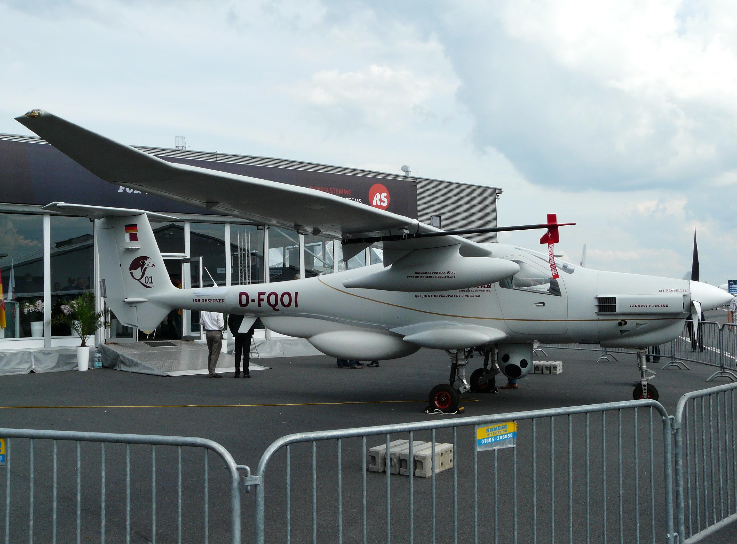 German reconnaissance aircraft Stemme Q01 at ILA 2016.